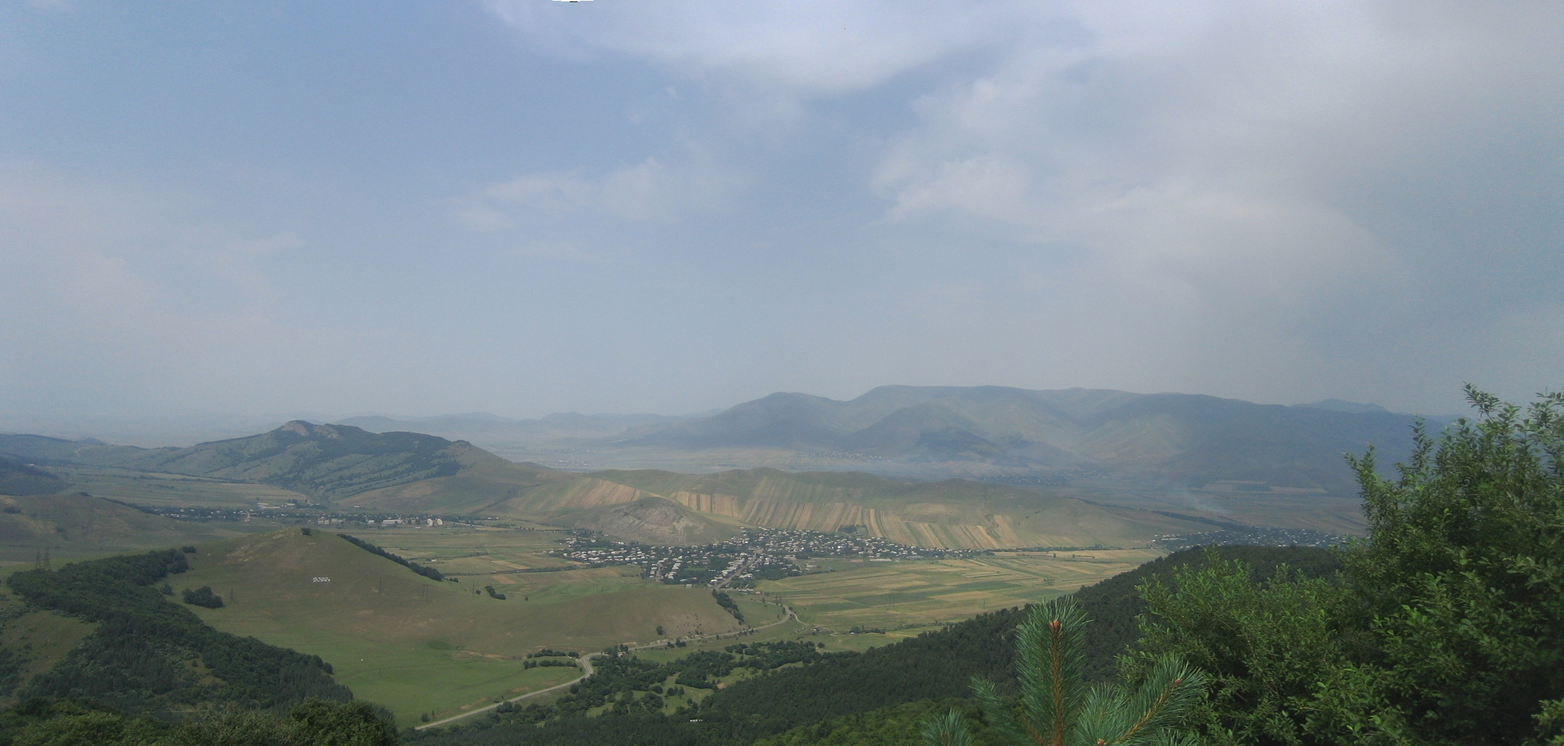 The northern part of Armenia's northern province of Lori as seen from Pushkin Pass. Visible in this picture are the villages of Pushkino (foreground, left), Gargar (foreground, center), Gyulagarak (foreground, right), Lori Berd (background, center-left), Lejan (background, center-right), and Agarak (background, right). Panorama created with Hugin software.